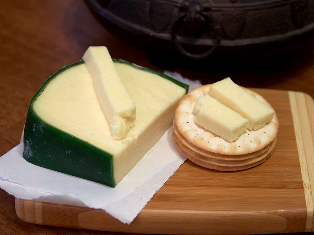 Bergenost wax covered cheese